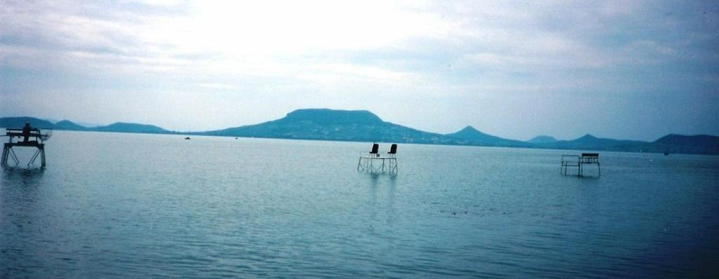 This is an image of Badacsony mountain on the north shore of Lake Balaton. The author, A. Ernyes took the original photograph there in 1998.